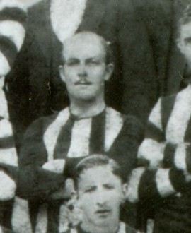 Photograph of Ernie Ashton in 1895.